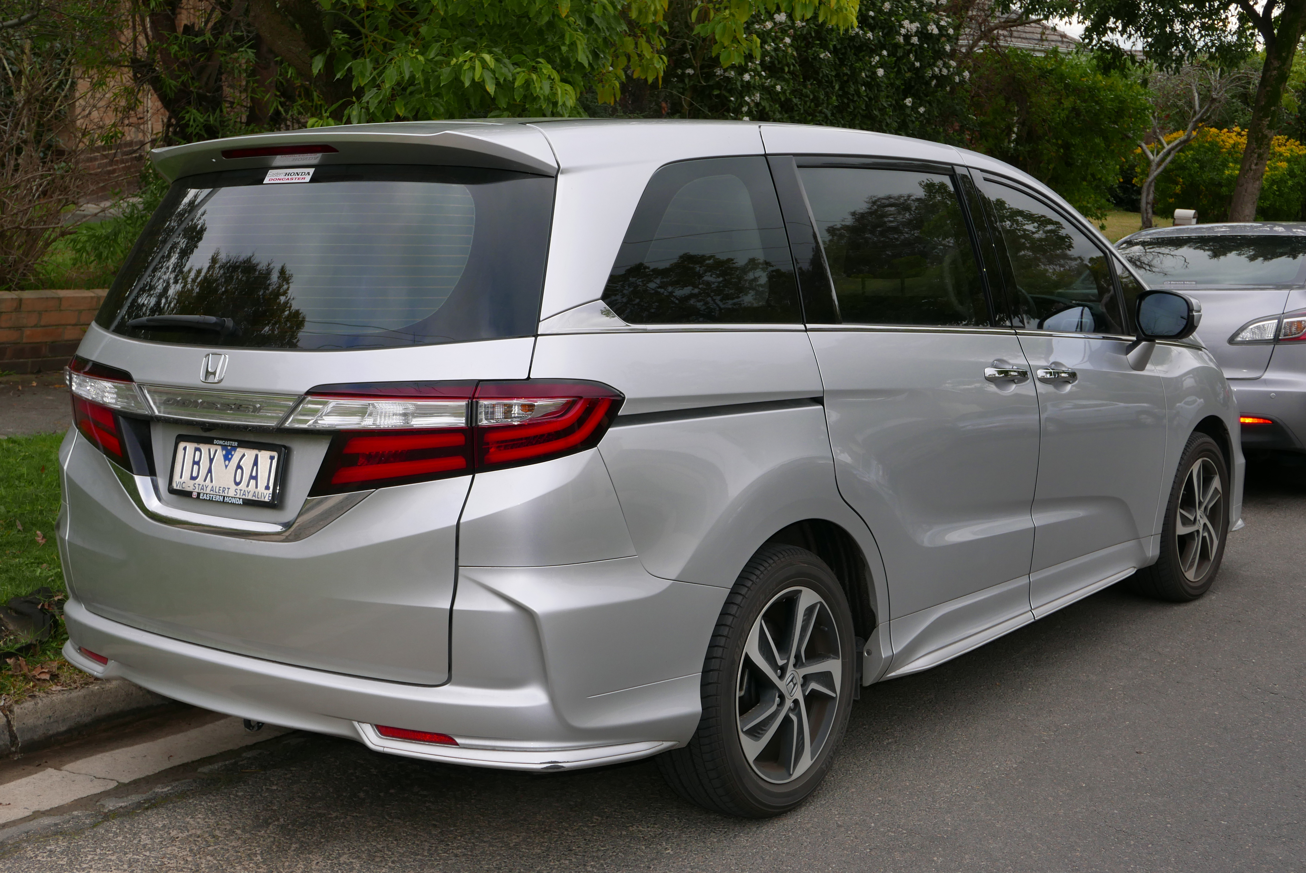 2014 Honda Odyssey (MY14) VTi-L van. Photographed in Balwyn, Victoria, Australia. Vehicle registration enquiry resultsJurisdictionVictoriaRegistration1BX6AIChassis codeJHMRC1850EC201757Engine codeK24W71051333Compliance date2014-05Year of manufacture2014